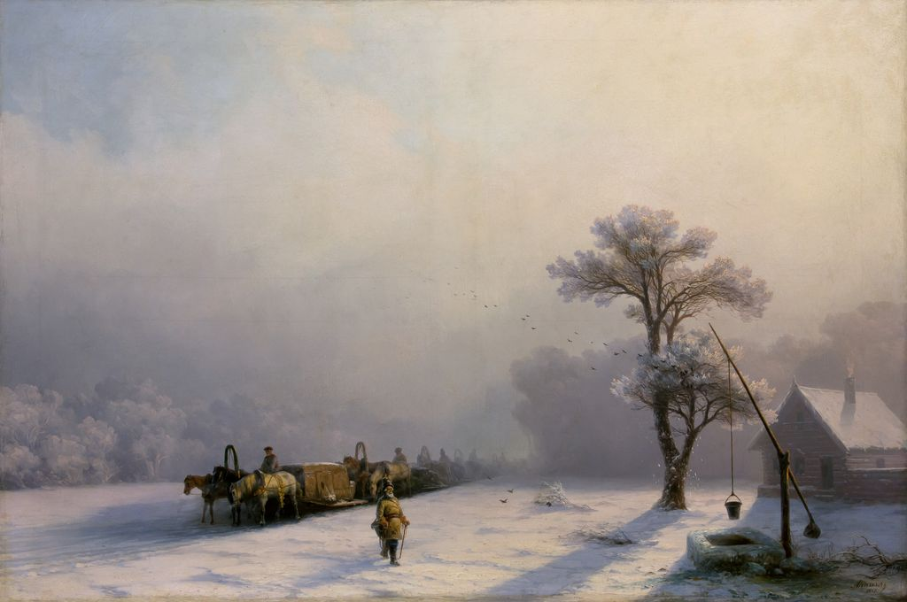 Winter Caravan on Road (painting by Ivan Aivazovsky, 1857)